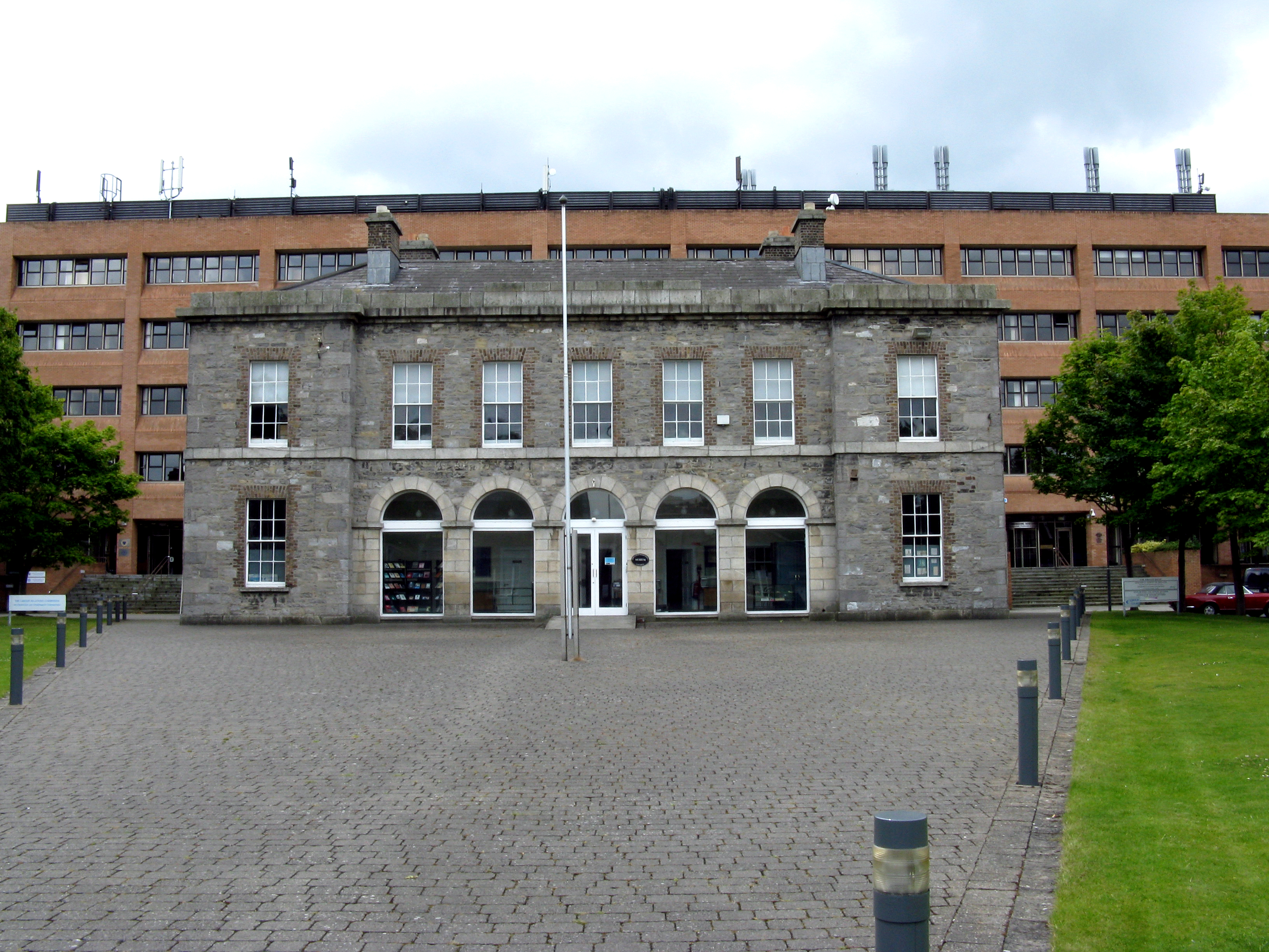 Museum of Labour History, Beggar's Bush, Dublin